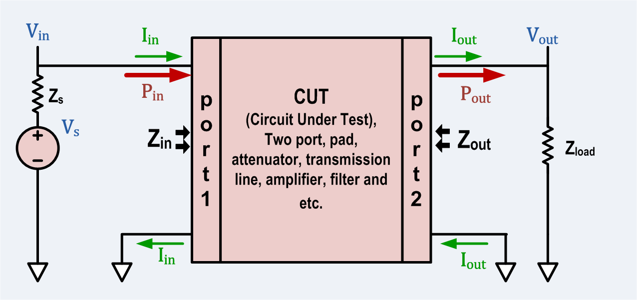 General application of a two-port with voltage, current and power variable shown with source on the left and load on the right.